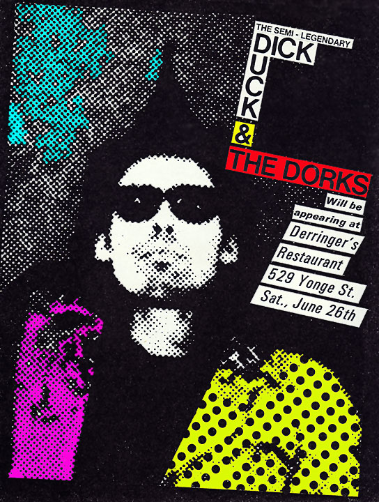 Band Poster, Dick Duck and the Dorks, (pictured lead singer Paul Eknes)poster design by P.B.Toman, early 1980's